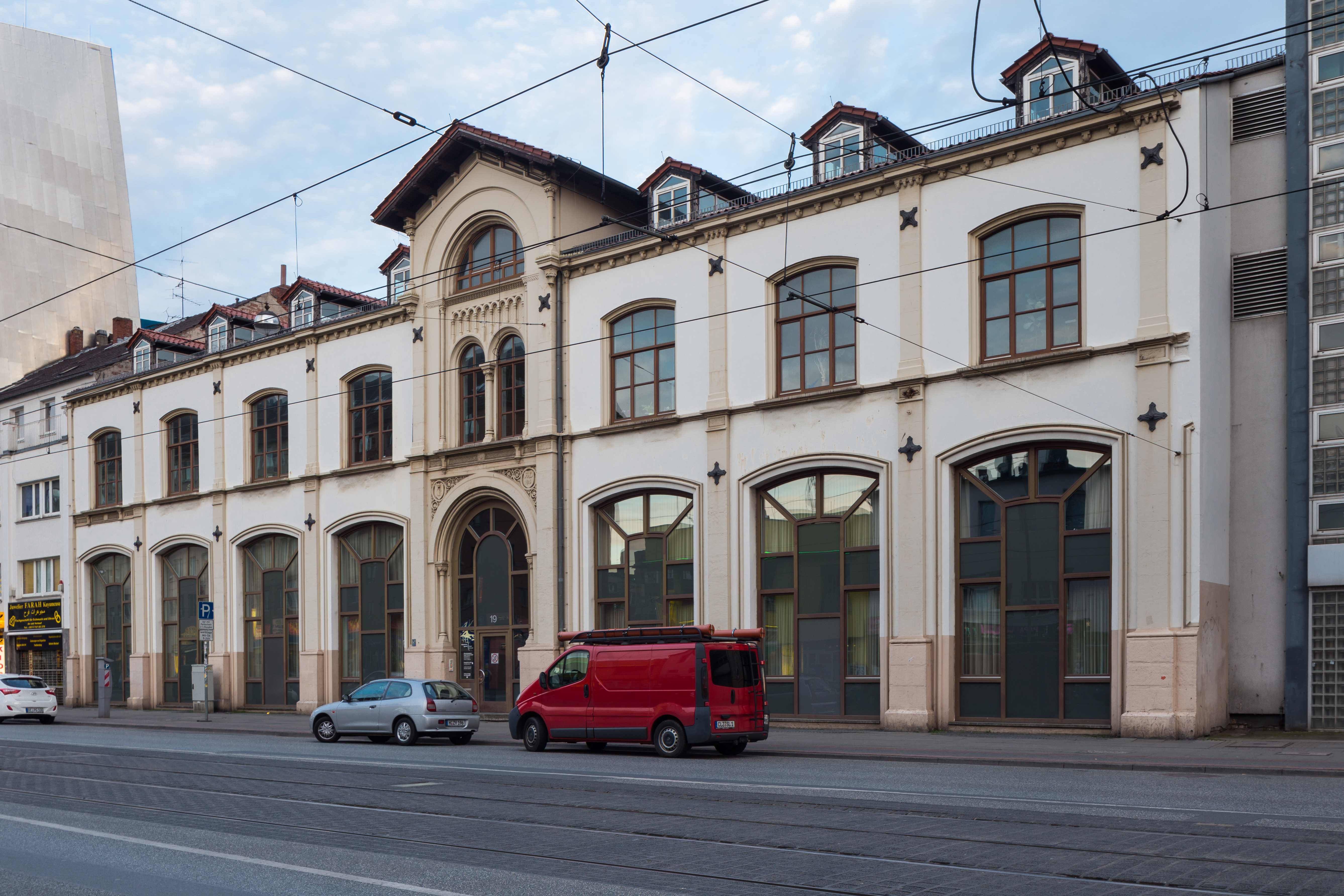 Wagenhalle (carriage hall) building located at Goethestrasse no. 17/19 in Mitte quarter of Hannover, Germany.